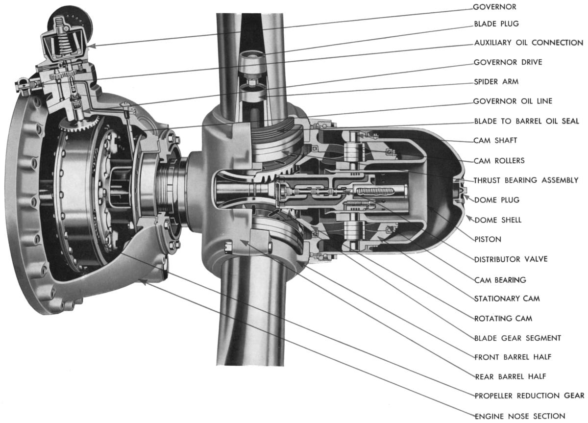 This is arguably the greatest propeller design ever built. The engineers at Hamilton came up with a propeller design that was very reliable and maintenance friendly. With an auxiliary oil connection to feather the propeller in flight. gave multi-engine aircraft a huge safety factor. The Hamilton Standard Propeller was used on most American fighters, bombers and transport aircraft of WWII.